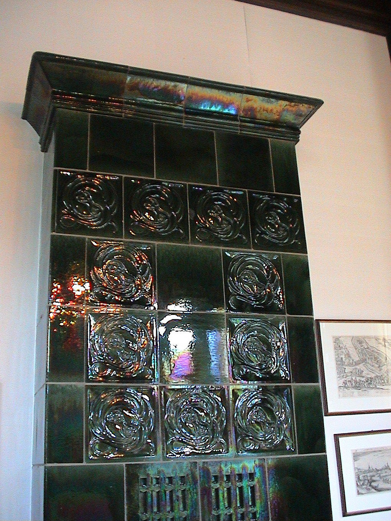 Masonry heater in the library of Krickenbeck Castle